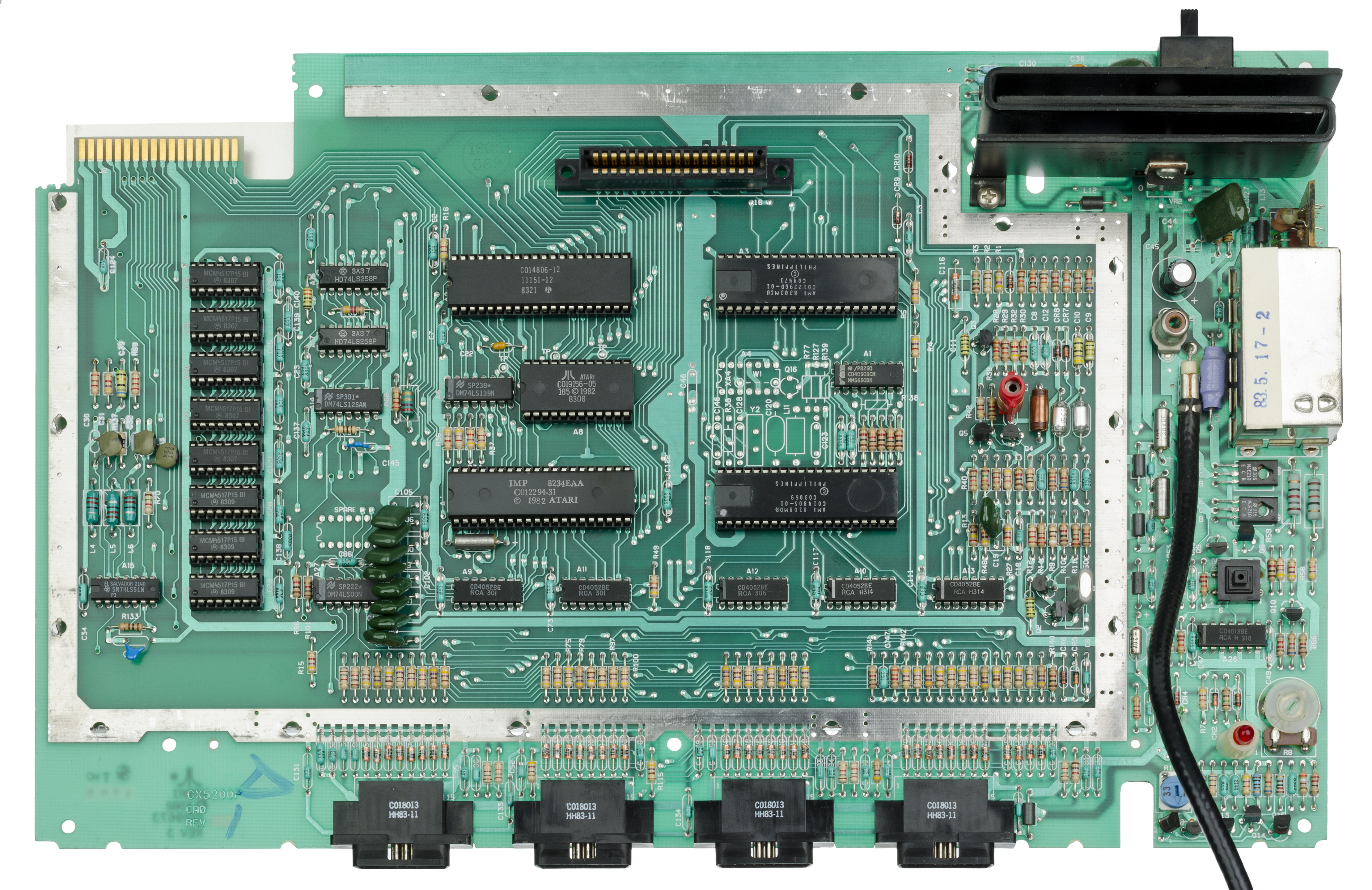 The motherboard of the Atari 5200, a gaming system released by Atari in 1982. Atari's follow-up to the very successful 2600, the 5200 was a larger, more powerful system that was based on the Atari 8-bit 400/800 computer line. It did not fare well in the market, due to Atari's and the gaming market's collapse in 1983. Noticeable on this motherboard is a expansion connector, which could be accessed through the back of the system, though was never utilized in the 5200's short life.